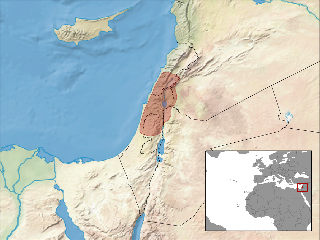 geographic distribution of Chalcides guentheri